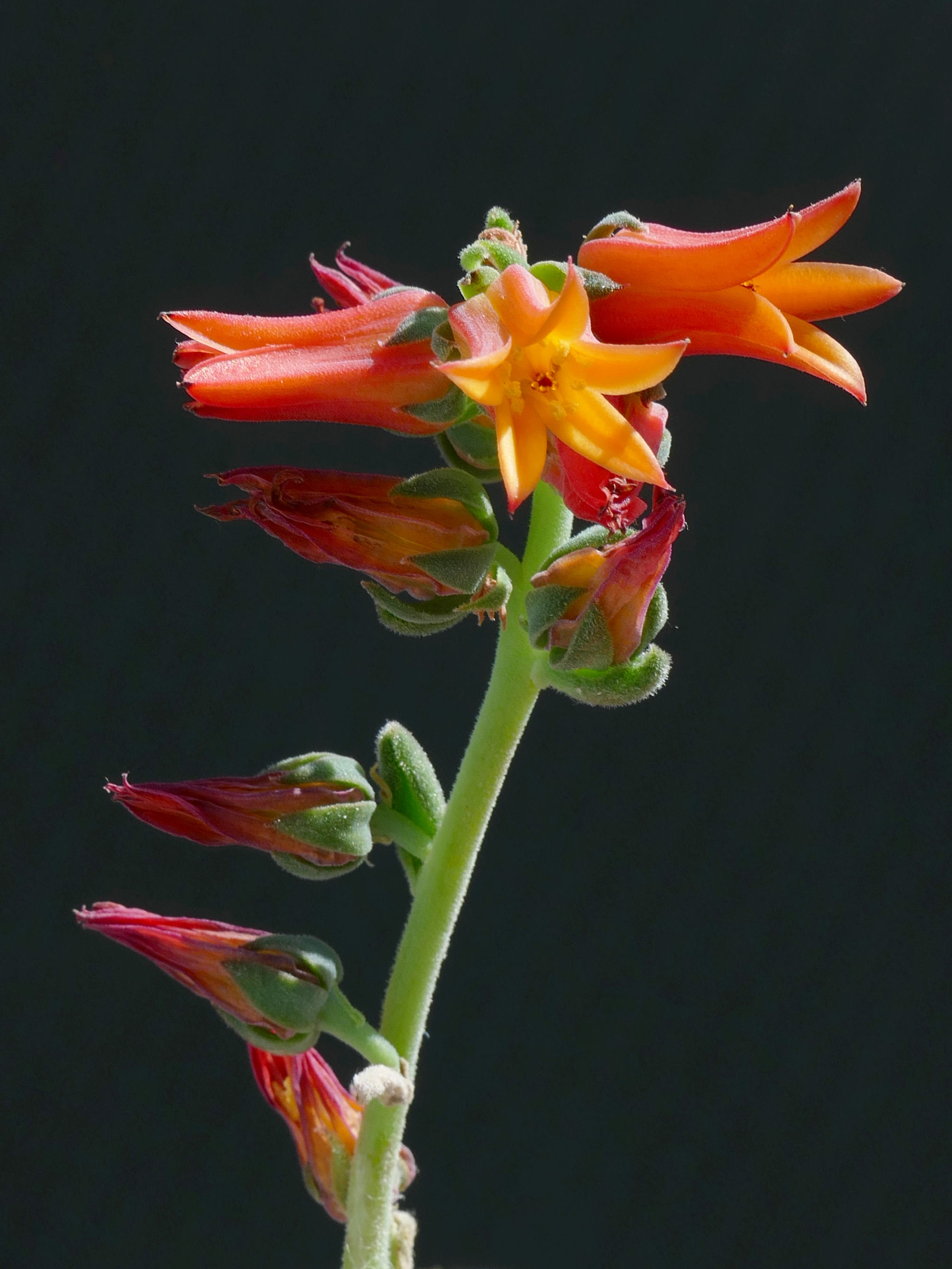 Echeveria elegans Rose Inflorescence of Mexican snow ball as a houseplant. Length of opened flowers (without peduncles) is appr. 20 mm.